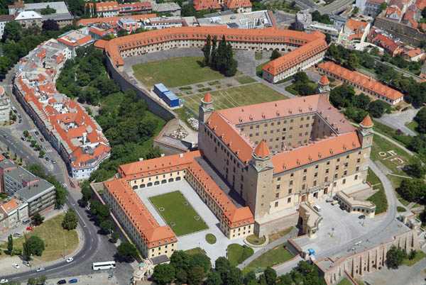 Bratislava, Slovakia, aerial photographgy, castle